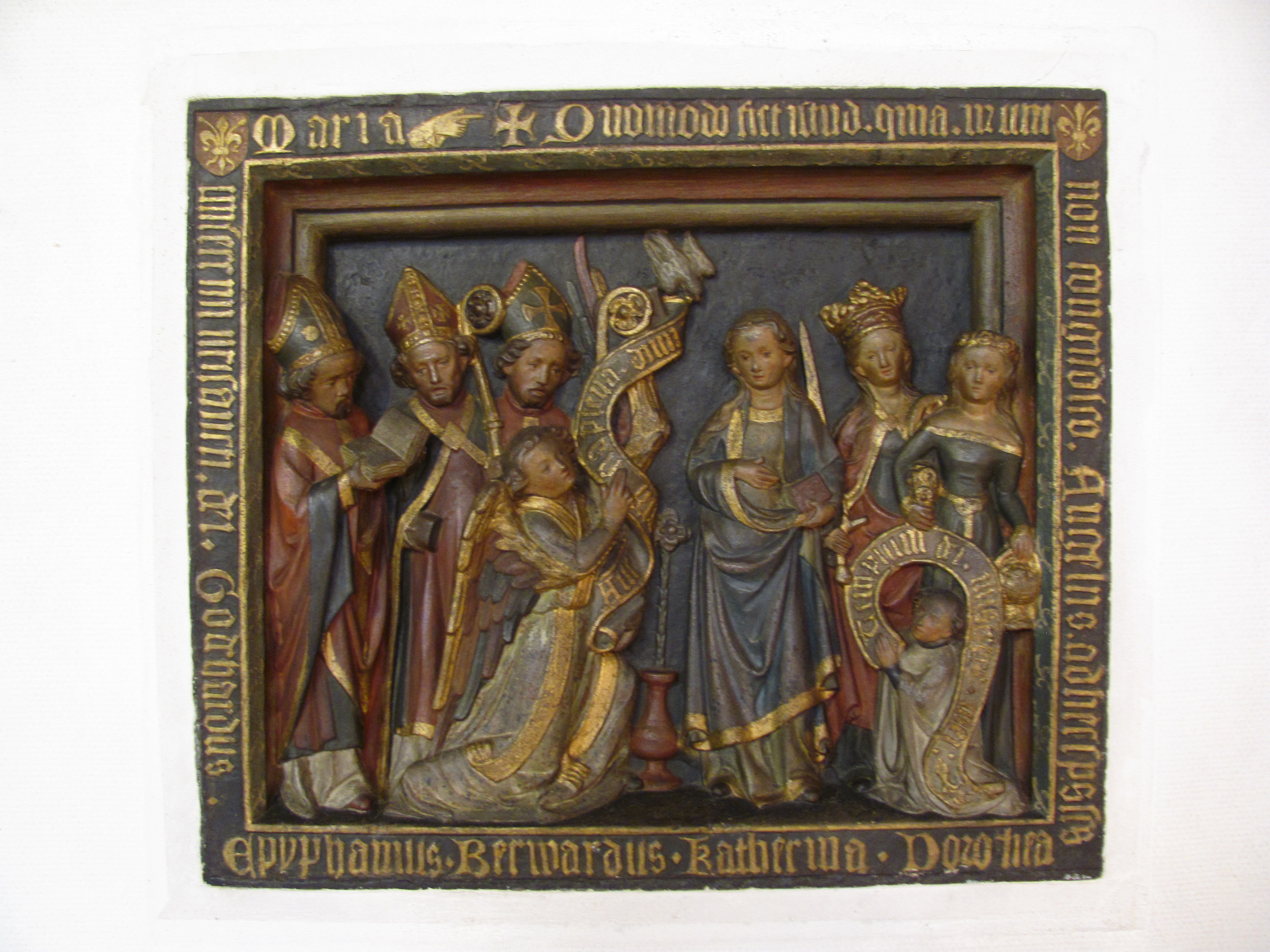 Relief dating from the 15th century in Saint Kunibert's Church, Hildesheim-Sorsum, Germany.